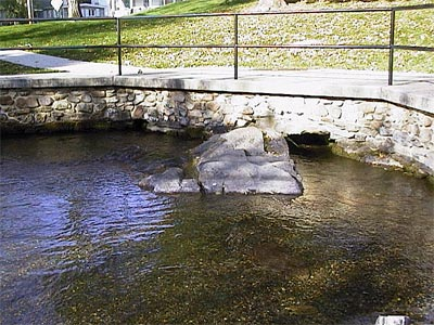 the freakin bubble Boiling Springs